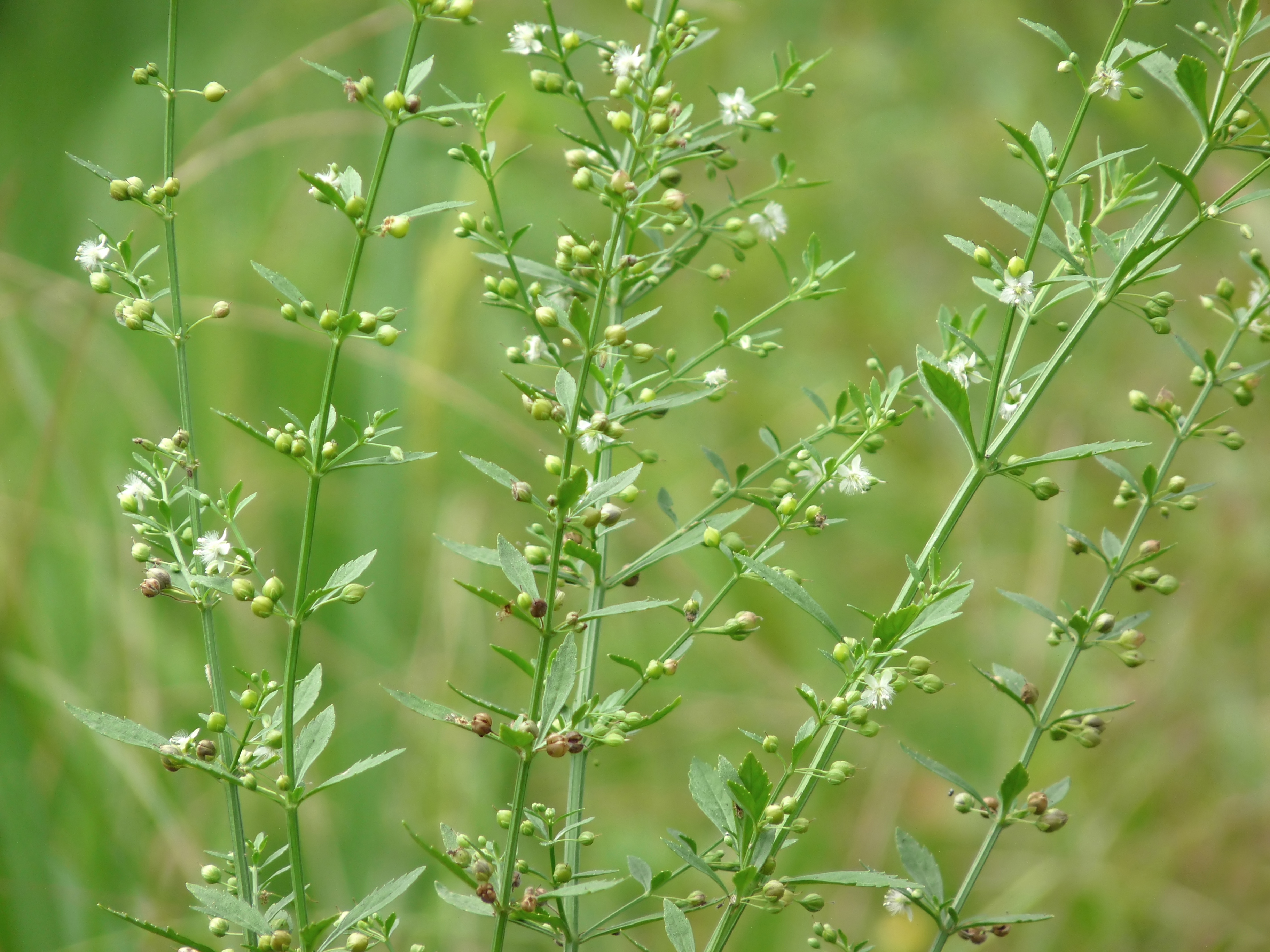 Scoparia dulcis is a species of flowering plant in the plantain family, Plantaginaceae. Common names include Goatweed, Scoparia-weed and Sweet-broom in English, Tapeiçava, Tapixaba, and Vassourinha in Portuguese, Escobillo in Spanish, and Tipychä kuratu in Guarani. It is native to the Neotropics but it can be found throughout the tropical and subtropical world. It is a branched herb with wiry stems, growing up to 1 m tall. Narrowly elliptic, almost stalkless leaves are arranged oppositely or in whorls of 3. Leaves are 3-4 X 1-1.5 cm wide, with serrated margins. Small white, hairy flowers occur in leaf axils. The stamens are greenish and the ovary is green. The capsule is nearly round. In the laboratory, extracts of the plant have been shown to have antihyperglycemic, antimicrobial and antioxidant properties Scoparinol, an isolate of the plant, was shown to have analgesic, diuretic, and antiinflammatory activity, as well. Other active principles in the plant have been called scoparic acid, scopadulcic acid, scopadulciol, and scopadulin.